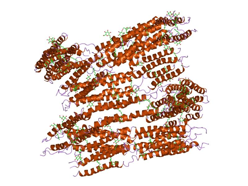 Cartoon representation of the molecular structure of protein registered with 1l6l code.